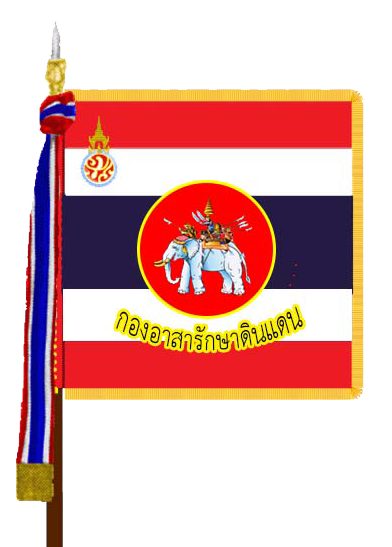 Flag of Volunteer Defense Corps (with staff)